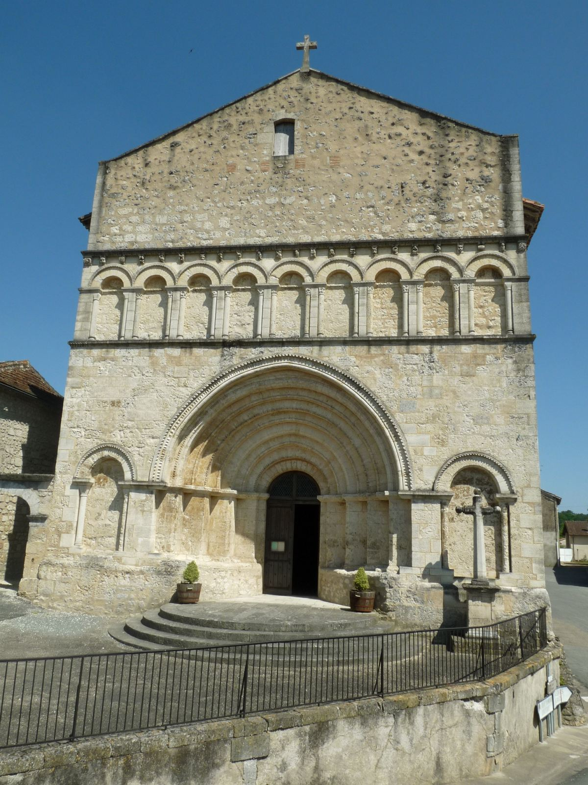 church of Saint-Privat-des-Prés, Dordogne, SW France